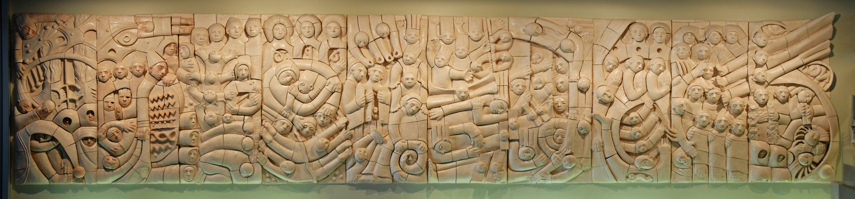 The Story of Life, a ceramic mural by Lorrain Malach, in the entrance of the Royal Tyrrell Museum of Paleontology in Drumheller, Canada. This is a composite of three pictures, assembled as a linear panorama.